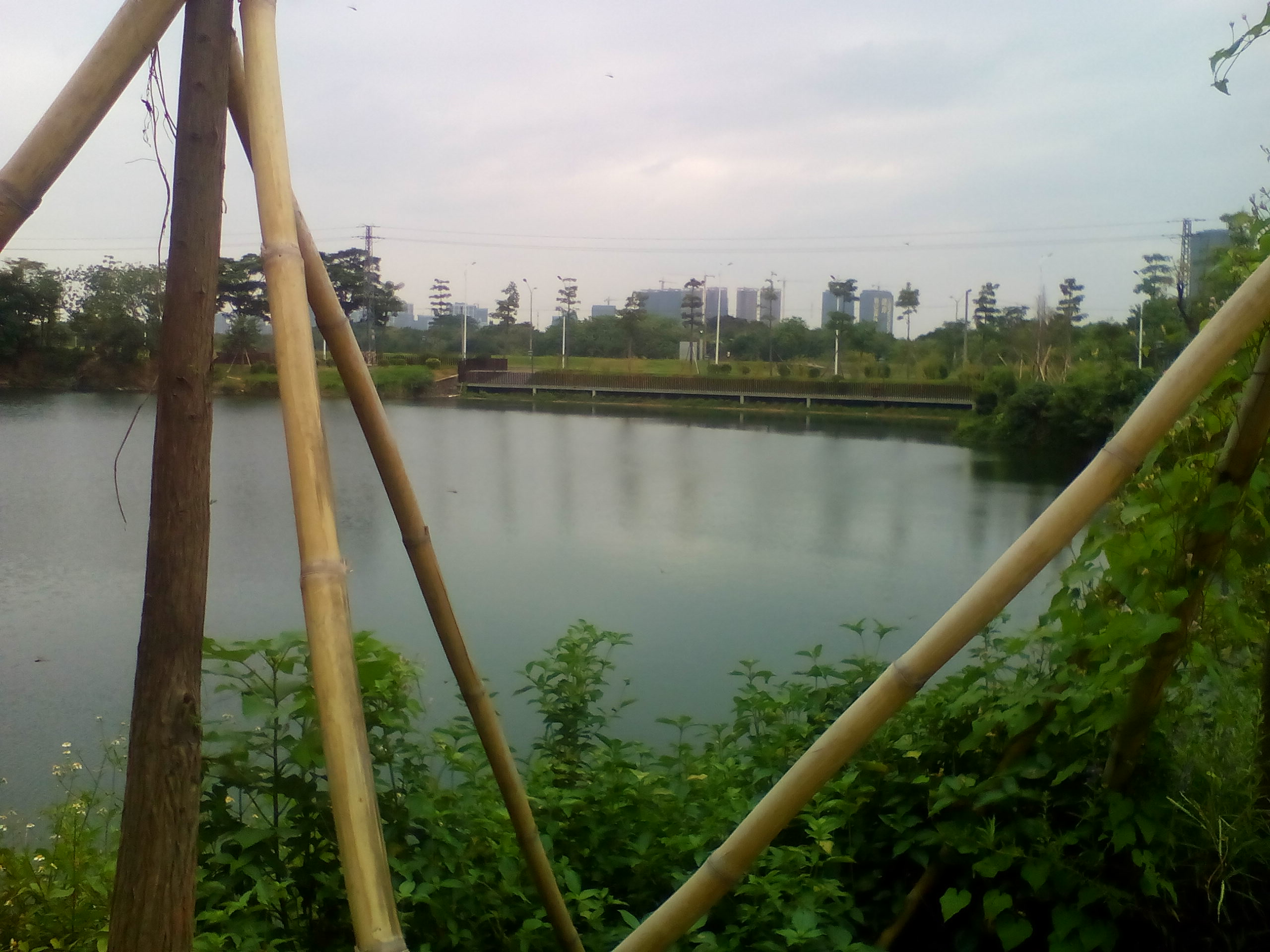 中文（中国大陆）: A footway along the central lake, Wangjiegang Park in Chancheng District, Foshan City, Guangdong Province, China